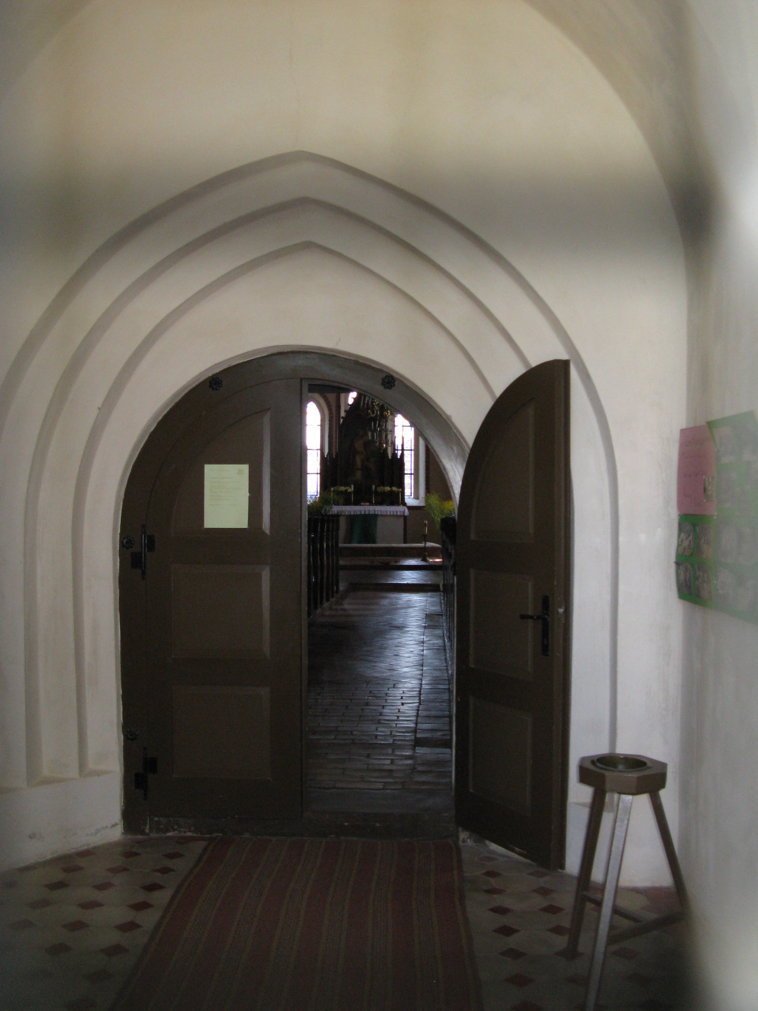 Church in Boddin, disctrict Güstrow, Mecklenburg-Vorpommern, Germany